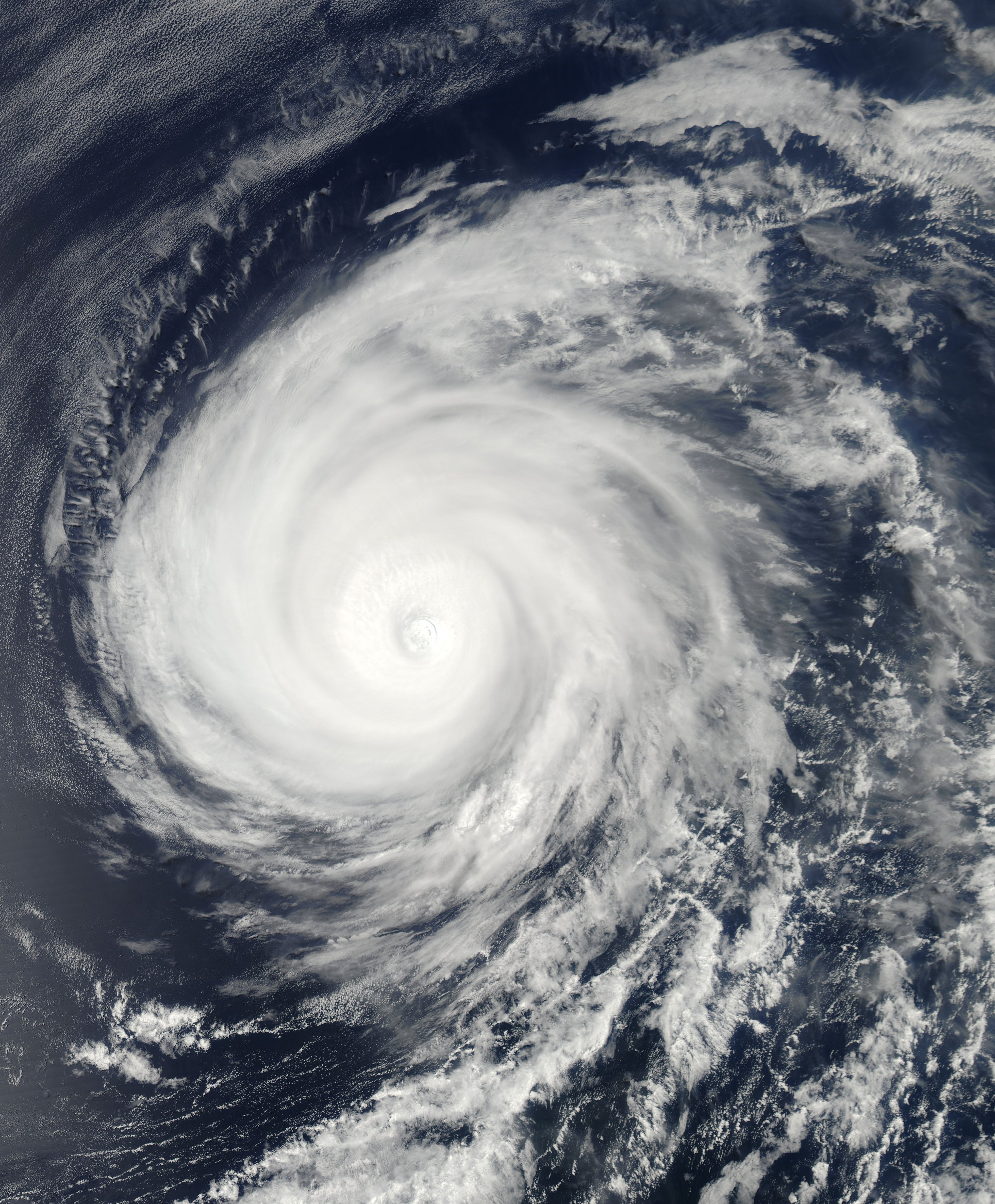 Hurricane Celia on June 25, 2010.